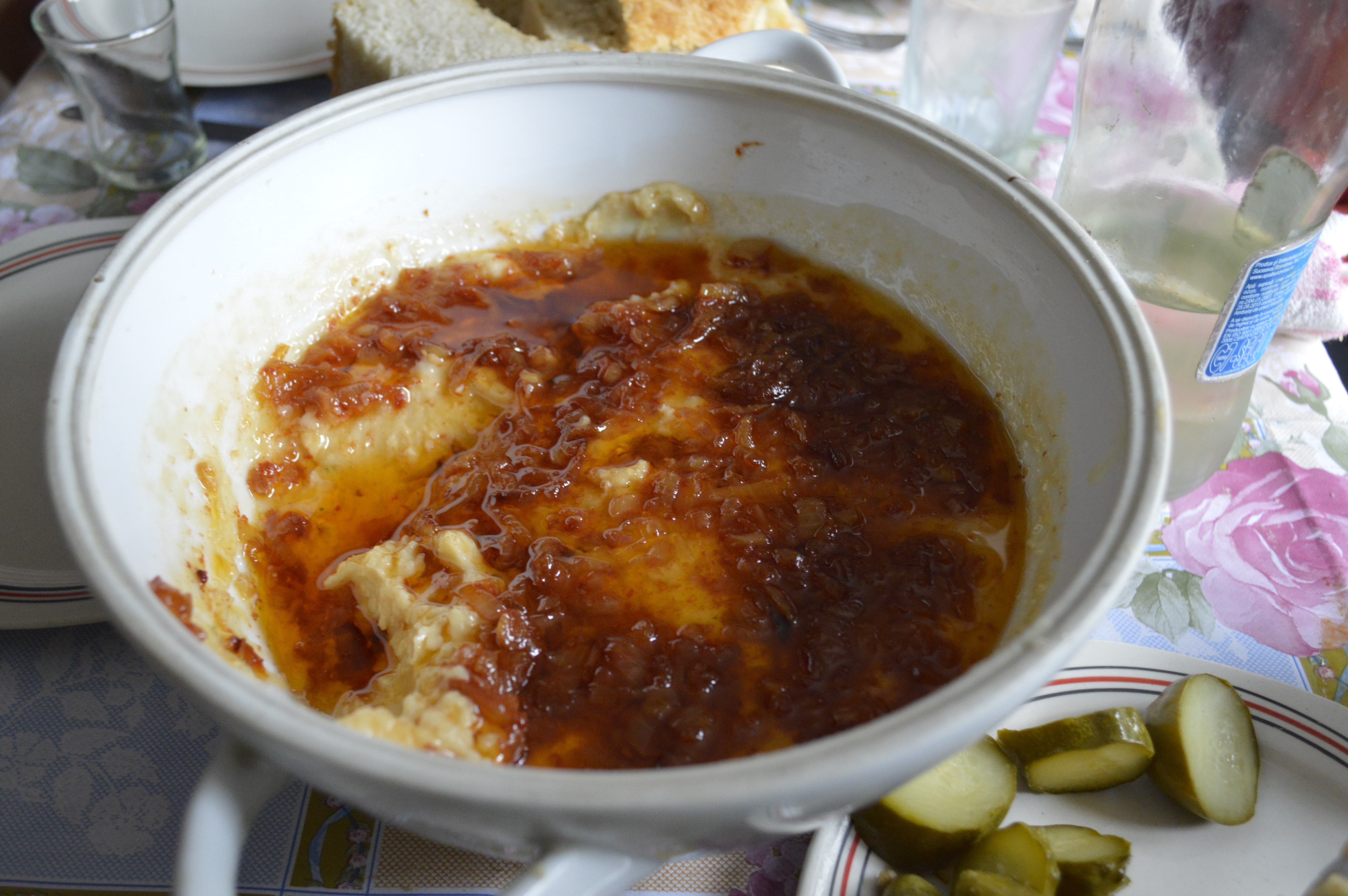 Smashed beans - Romanian dish